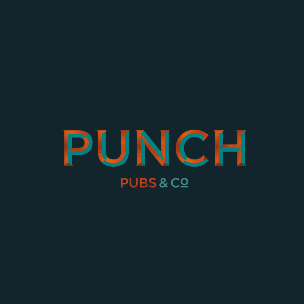 Punch Pubs & Co Logo (redesigned and in use from September 19)